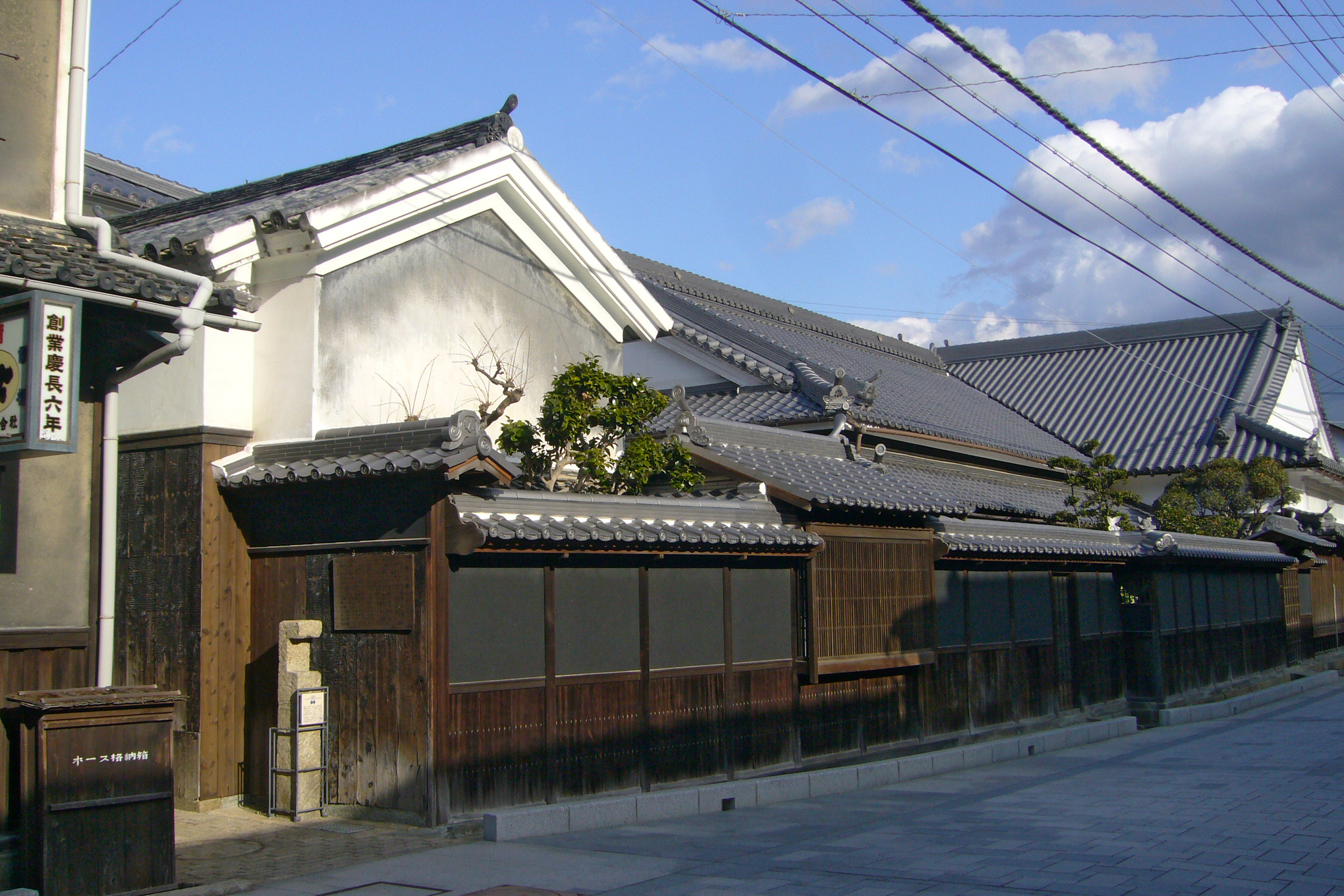 Okudo House in Sakoshi, Ako, Hyogo prefecture, Japan